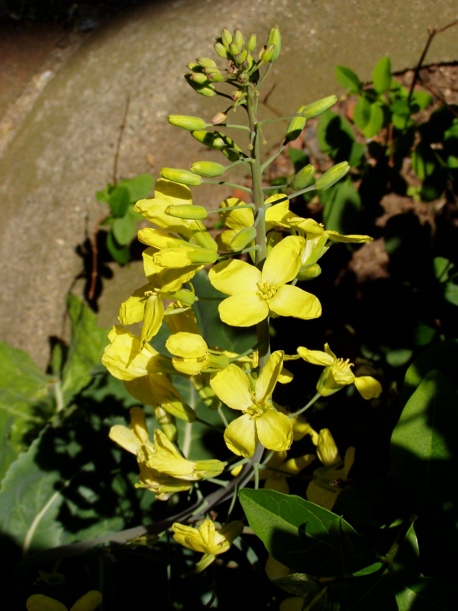 Brassica oleracea, wildtype from Heligoland